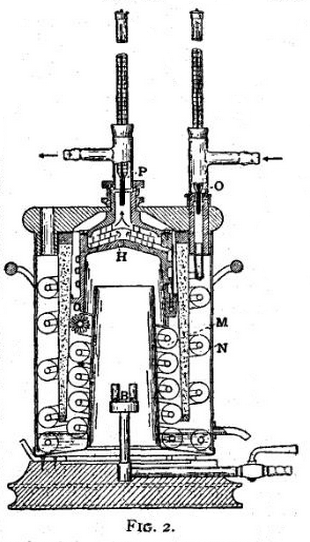 Calorimetry